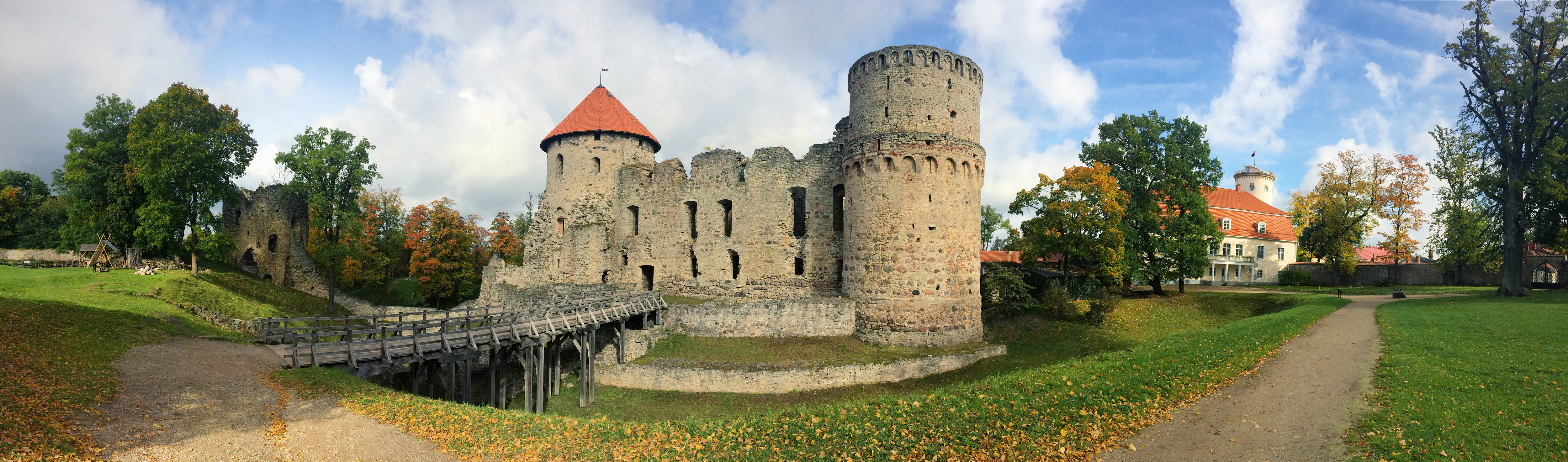 Cesis Castle 2016-09-29